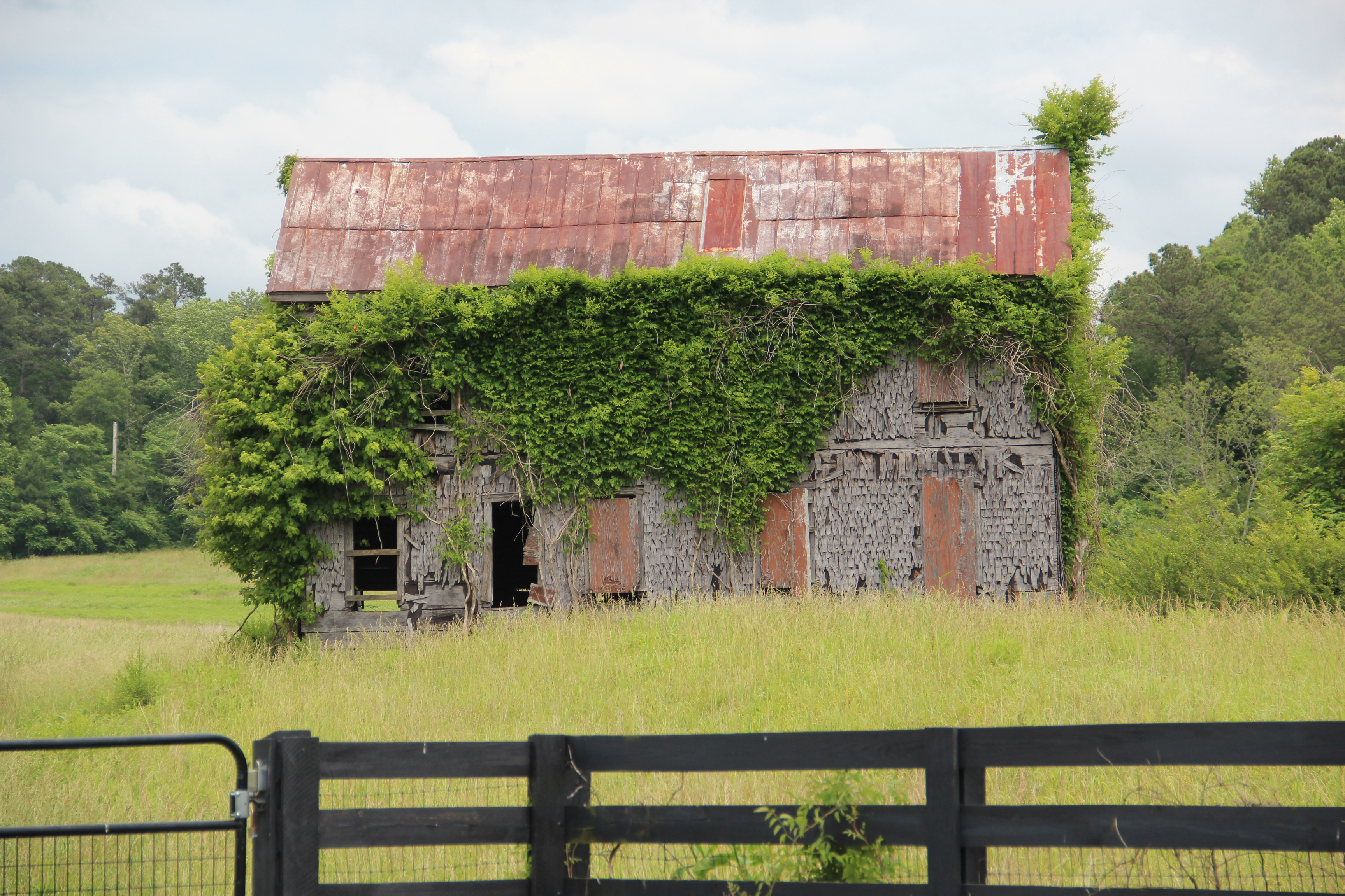 The Shingle House, the last remains of the Franklin-Creighton Mine